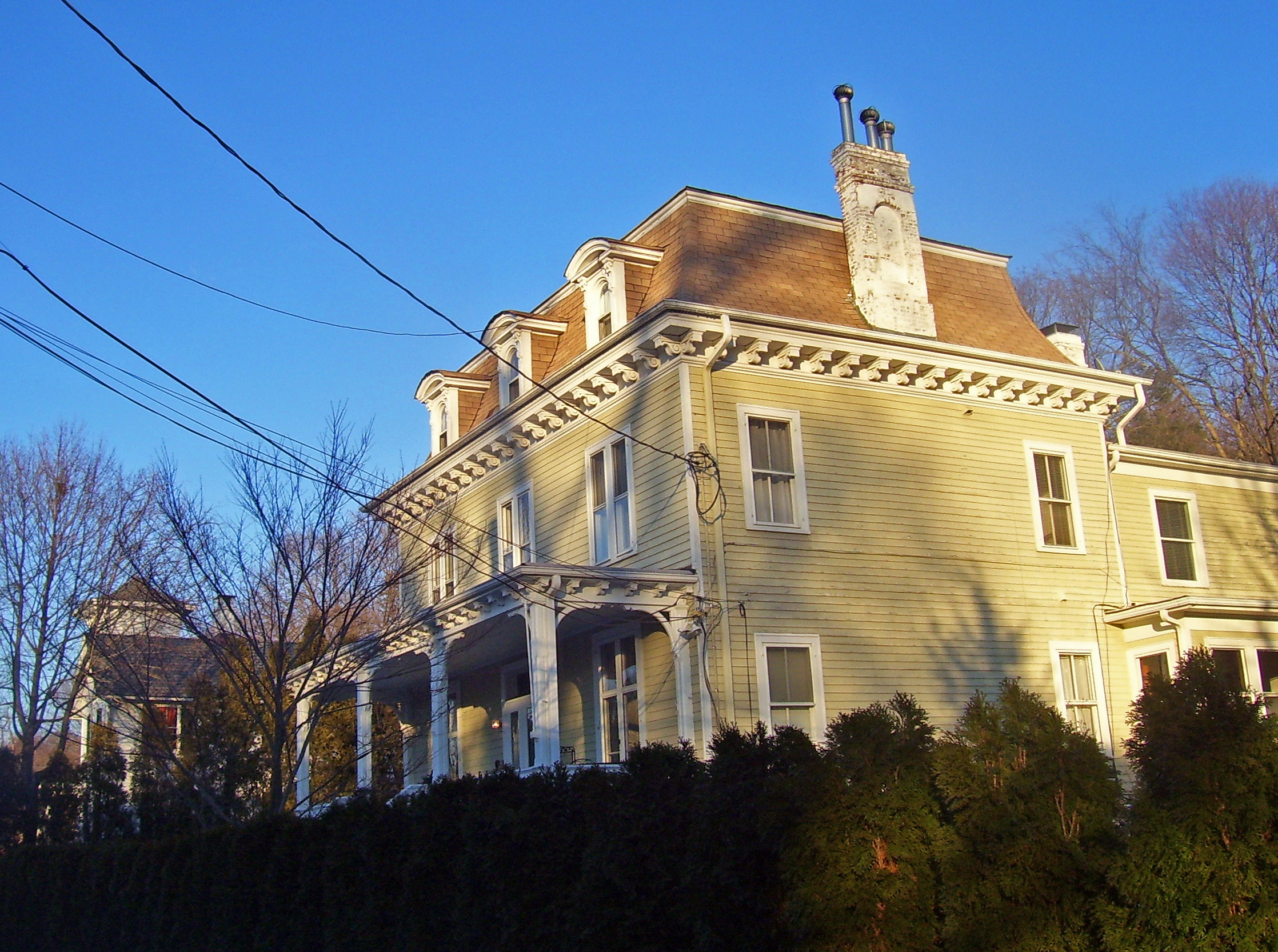 2 and 8 North Grove Street, Tarrytown, NY, USA, contributing properties to the small historic district in the neighborhood